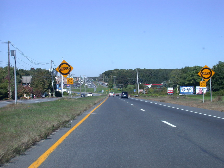 The traffic circle pictured, located in Wall Township, NJ, is correctly named the "Allenwood" Circle. Although folks over the years have called it different names, (i.e., the "Spring Lake" circle or the "Wall" circle, or even the "Allaire" Circle), it is actually the Allenwood Circle. (Original text: "Route 34 at the Allaire Circle.")